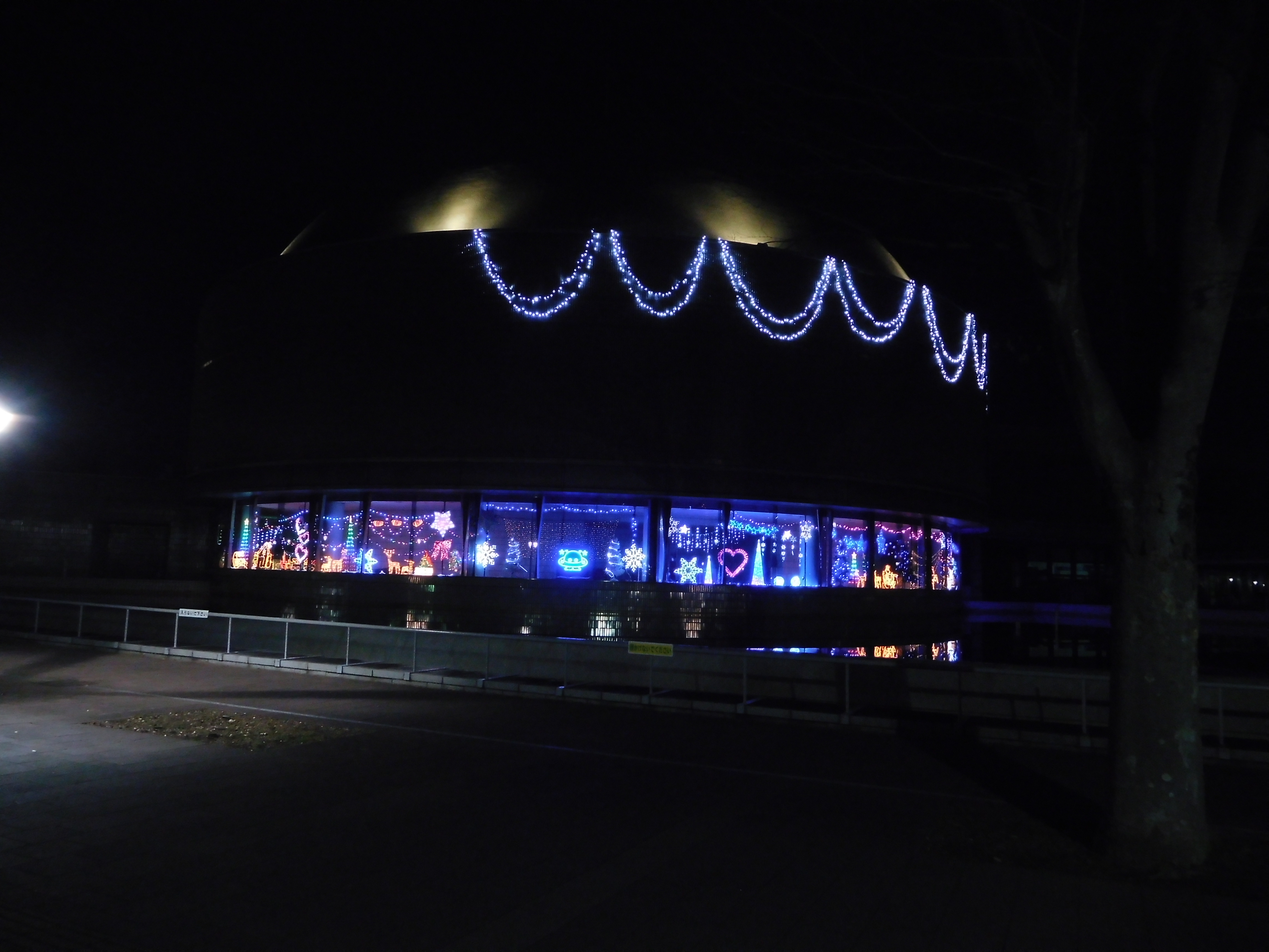 This is an illumination in Tsukuba, Ibaraki, Japan.